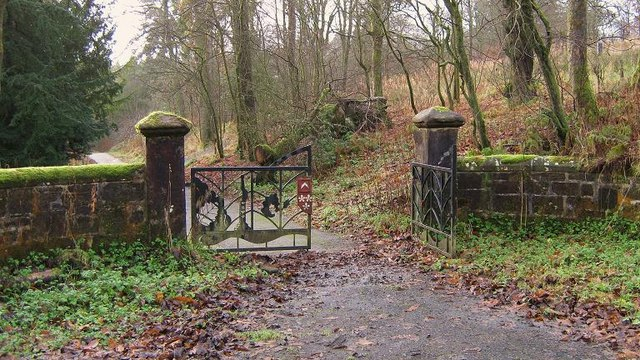 Old Entrance to Vault Glen